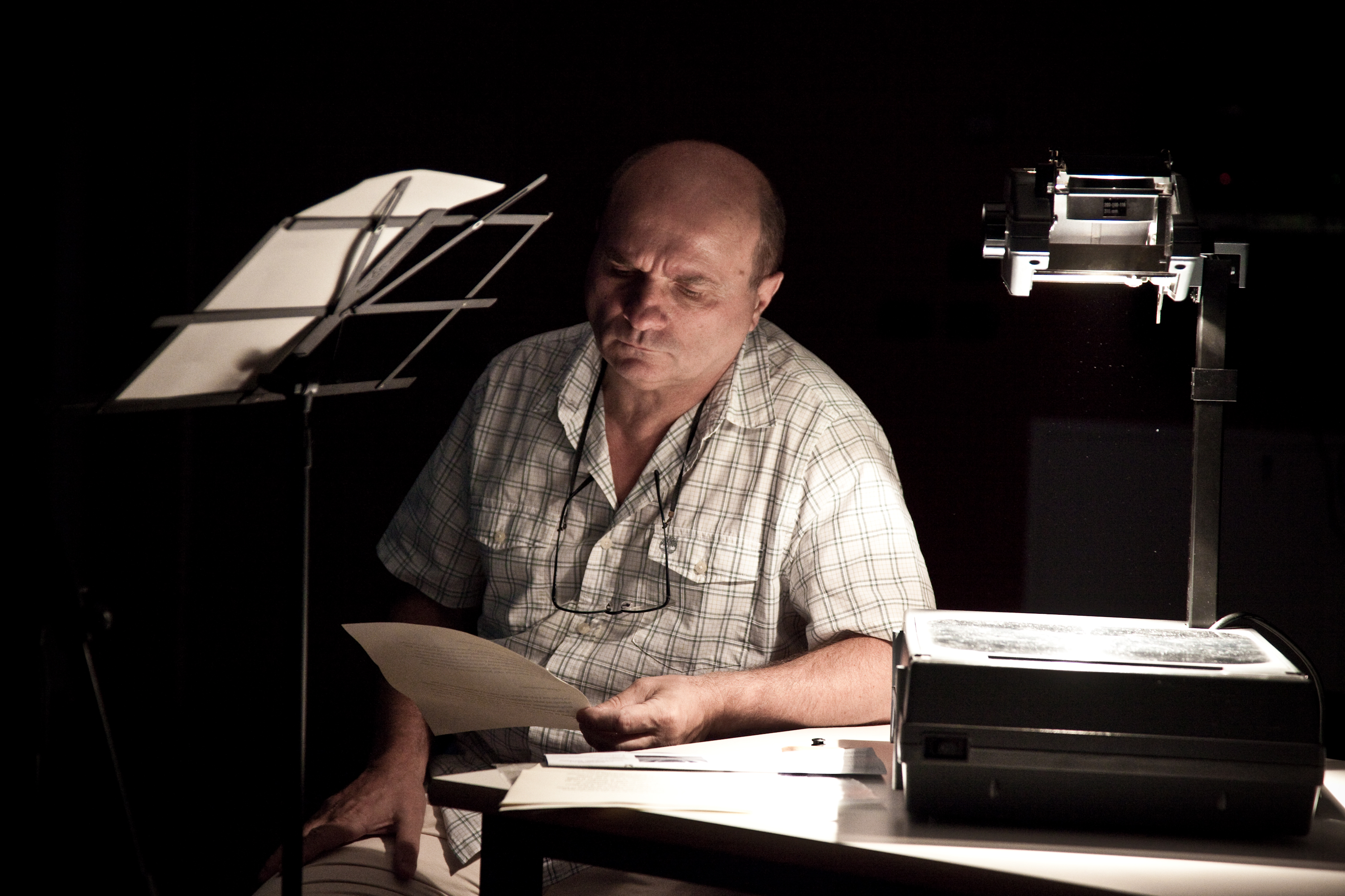 Warburghiana, Concerto sinottico n. 4. Performance and installation composed of a series of 4 videos. Artwork commissioned by Associazione Amici del Museo delle Grigne Onlus, Esino Lario for Vestire i paesaggi and Ecomuseo delle Grigne; artistic director Iolanda Pensa. Archivio Pietro Pensa. Photos by Valeria Vernizzi, Brivio, 9/07/2010. The artwork relies on a documents about streets and communication. In particular it presents the bridge of Brivio. The performance was filmed and used to compose a new series of videos.